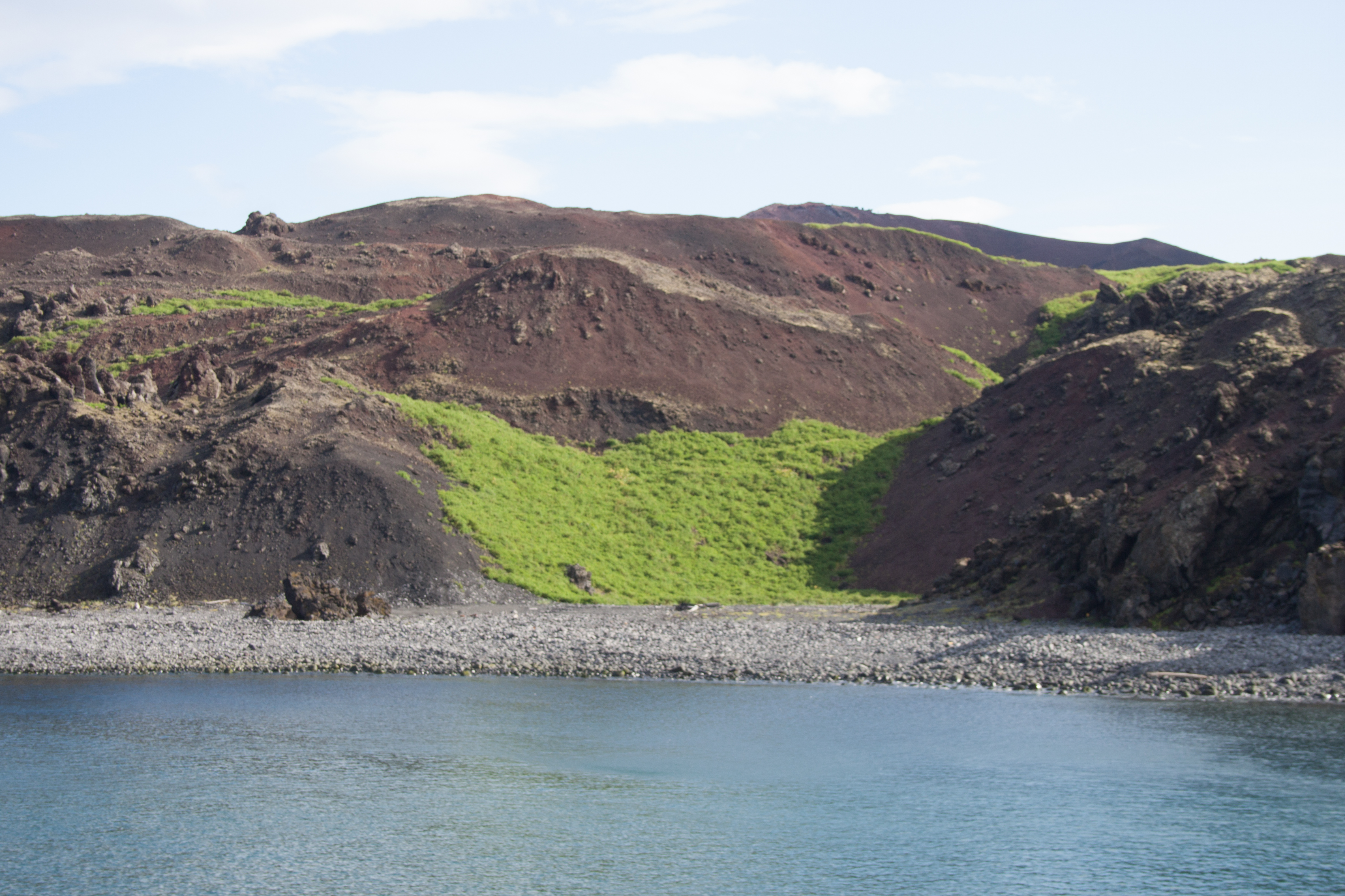 Entrance of the harbour, vegetation on the tefra